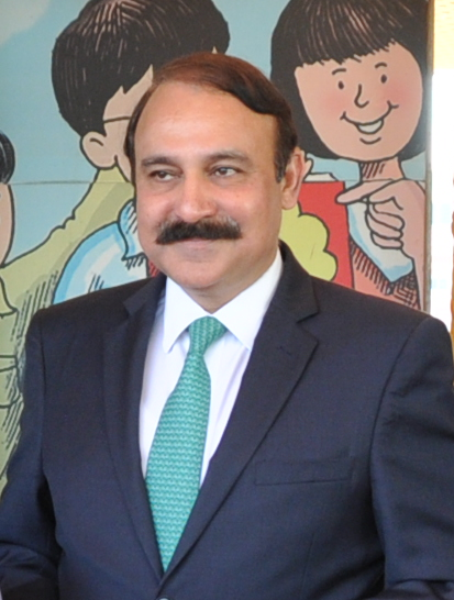 USAID Hands Over Mobile Bus Libraries to CA&DD. Islamabad: To mark International Education Week, the United States Agency for International Development (USAID) handed over two mobile libraries to the Capital Administration and Development Division (CA&DD) at a ceremony in a local school today. After the transfer agreement was signed, USAID’s Office Director for Education Dr. Christopher Steel formally presented the bus keys to Minister of State for CA&DD Dr. Tariq Fazal Chaudhry. “With these mobile libraries, we can make sure that good books are reaching children who want to read and helping them become good readers,” said Dr. Steel. “I am happy that through today’s commitment, we are continuing this tradition of supporting Pakistan in its efforts to promote education, strengthen its education system and develop a national culture of reading.” The mobile libraries will increase the availability of reading materials for children in Islamabad and surrounding areas. For the past two years, the USAID-funded Pakistan Reading Project has operated the mobile libraries, visiting 338 schools and reaching nearly 65,000 children in Islamabad and Sindh. After each visit, the libraries leave behind a set of books so that children can continue to read. So far the mobile libraries have distributed 53,479 books during school visits. The Pakistan Reading Project supports Pakistan’s provincial and regional Departments of Education in helping improve children’s reading skills. For more information on the United States’ assistance for education in Pakistan, please visit